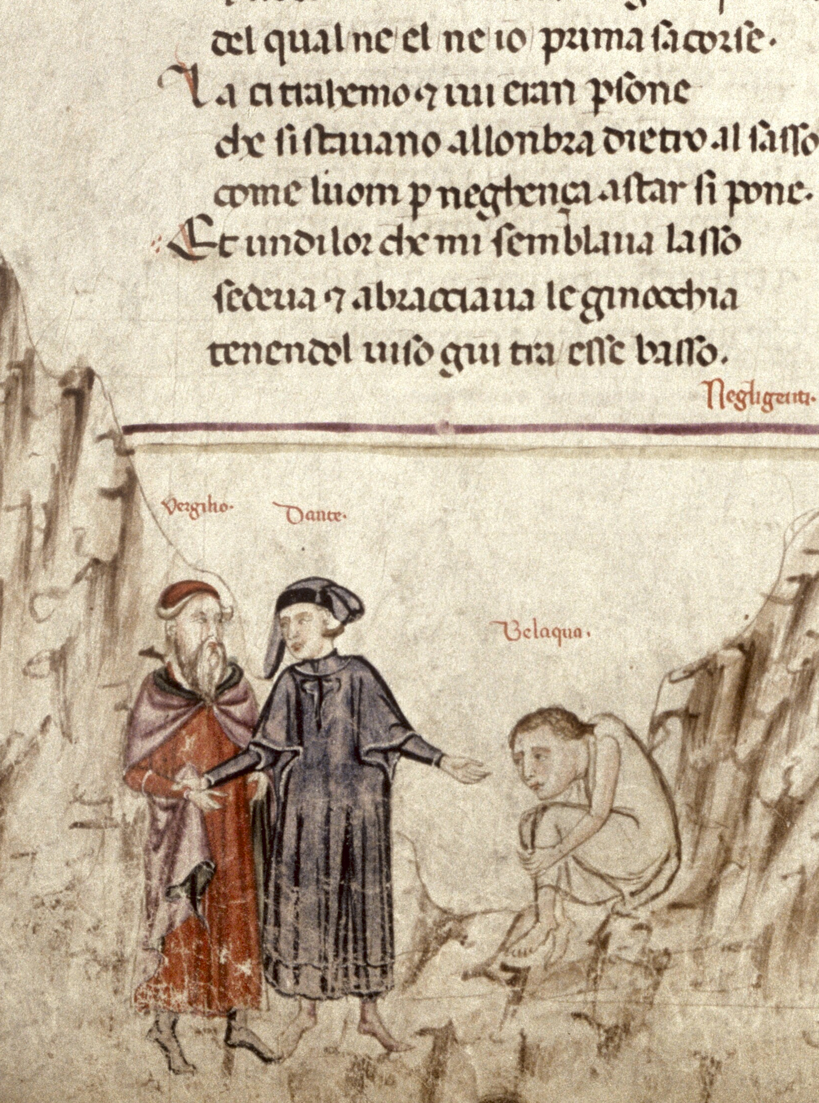 A clip from a 14th century manuscript copy of Dante's Divine Comedy, Purgatorio, Canto IV, showing Virgil and Dante talking to Belacqua.